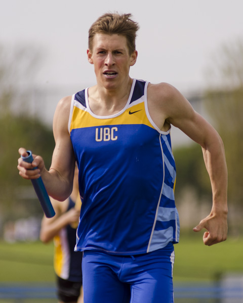 Photo of Canadian athlete Lucas Bruchet.